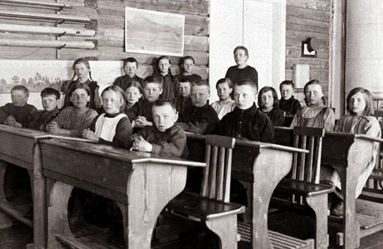 Pupils at the school of Torvinen in Sodankylä, Finland, sometime i 1924–1926. Teacher Maiju Kiviharju